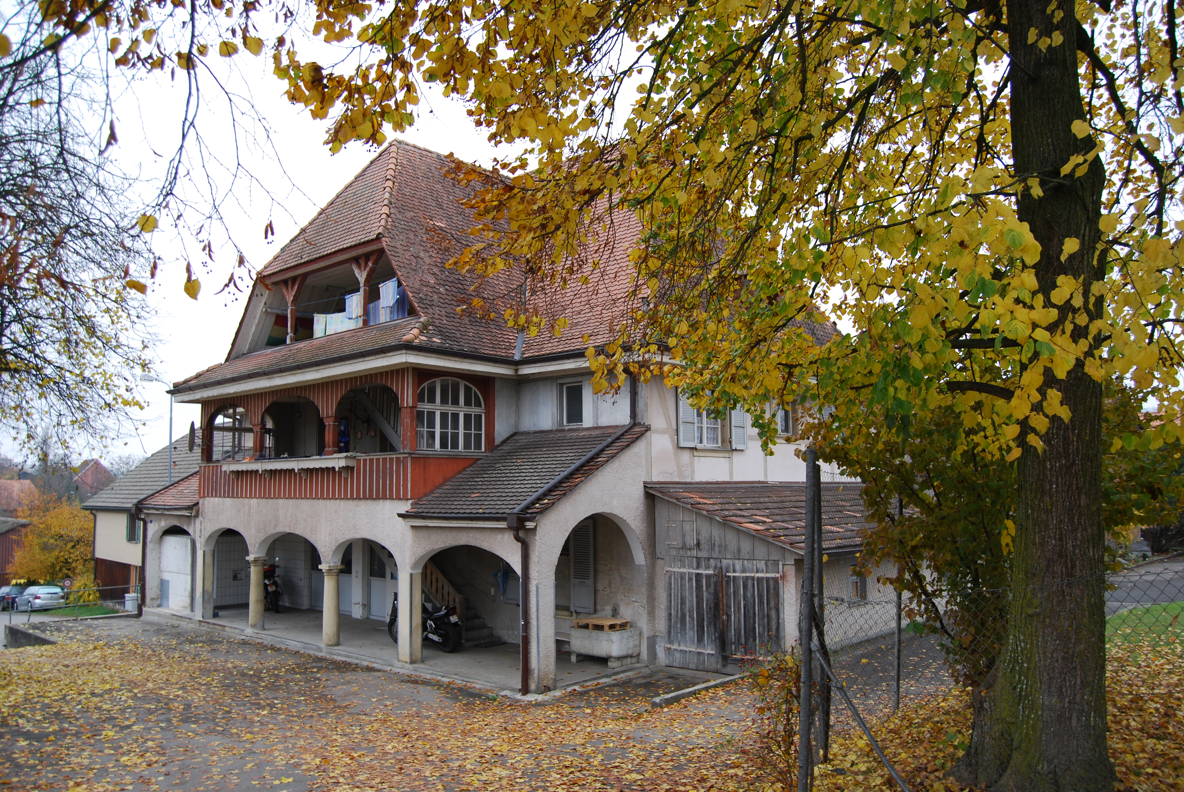 Mülchi, canton of Bern, Switzerland. Cheese dairy.